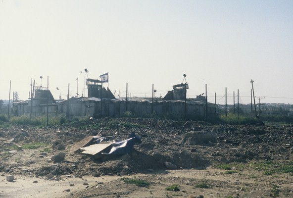 Netzarim crossing. A view West from the Gaza-Khan Yunis road of the Israeli Army base. February 2001.